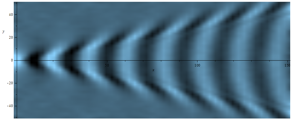 Kelvin Wake (Maple density plot)